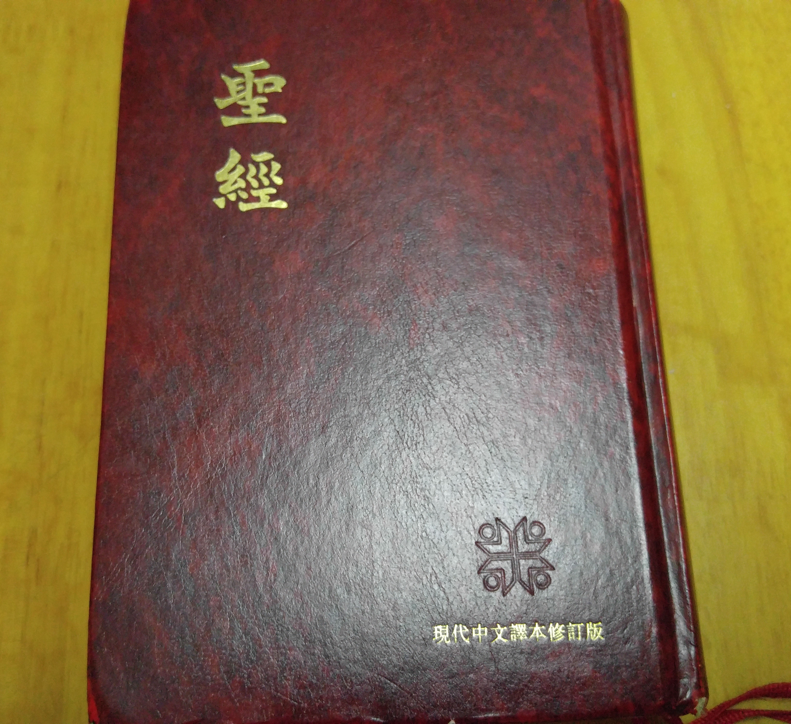 Today's Chinese Version Bible Book Cover